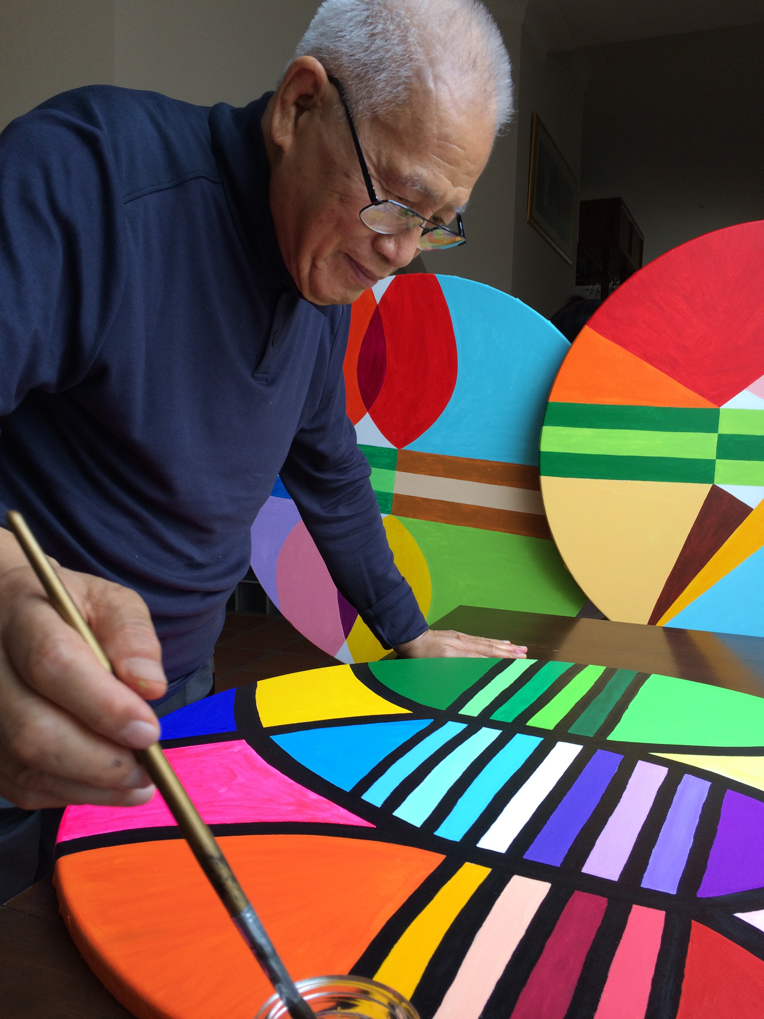 Photo of Sun Chan 中文（香港）: 陳伸，於家中創作時攝